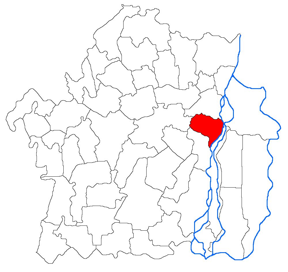 Limits of the commune of Tiichileşti in Brăila County, Romania